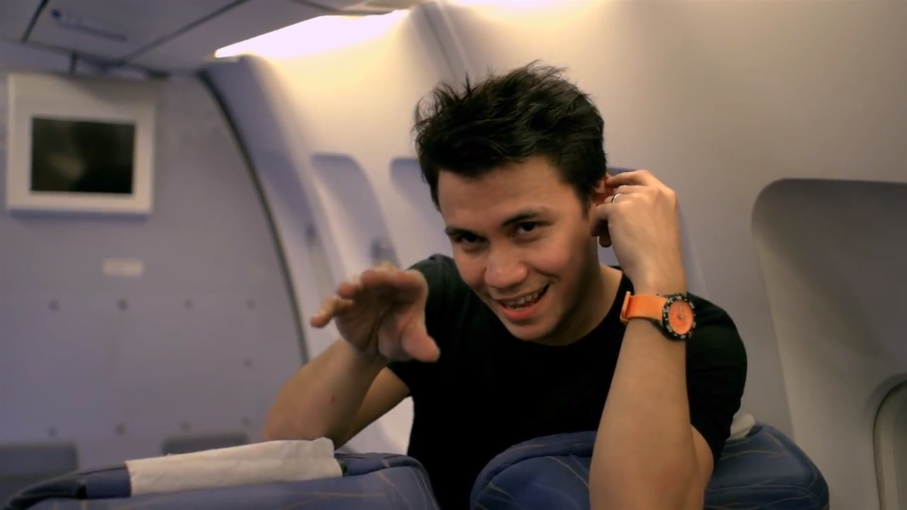 Shake, Rattle and Roll XV Official Trailer - Melai Cantiveros